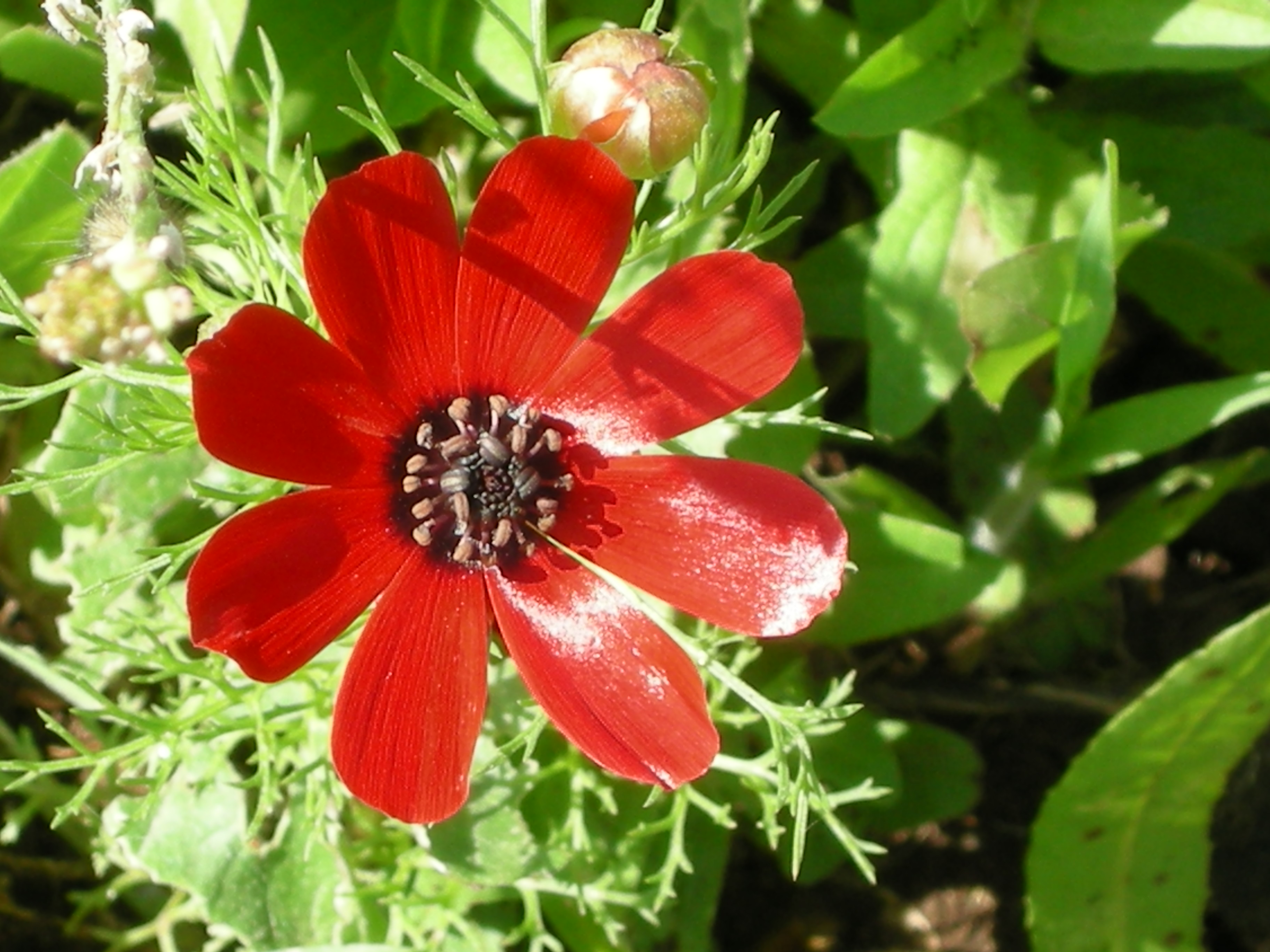 Bloom In Vered Hagalil Adonis aleppica דמומית ארם-צובא